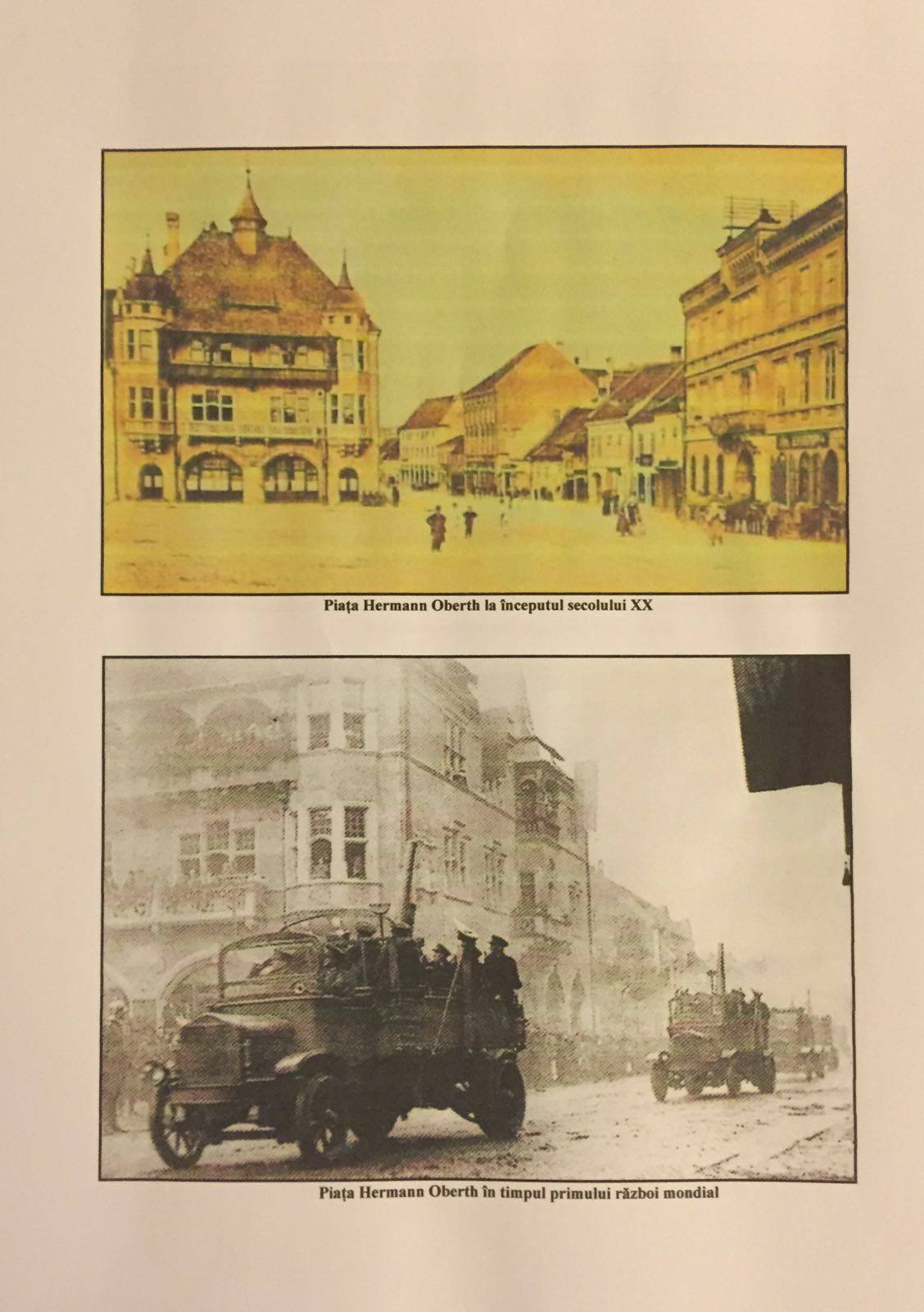 An old view on Piata Hermann Oberth in Sighisoara; old car in piata hermann oberth